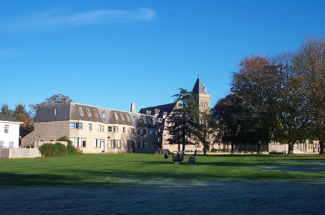 Taunton School. An independent boarding and day school for boys set in beautiful grounds close to the town centre.